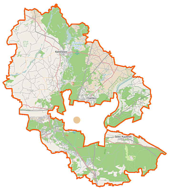 Map of Powiat bydgoski, Poland This map of Powiat bydgoski was created from OpenStreetMap project data, collected by the community. This map may be incomplete, and may contain errors. Don't rely solely on it for navigation. Border coordinates53.456217.6550←↕→18.443352.9288